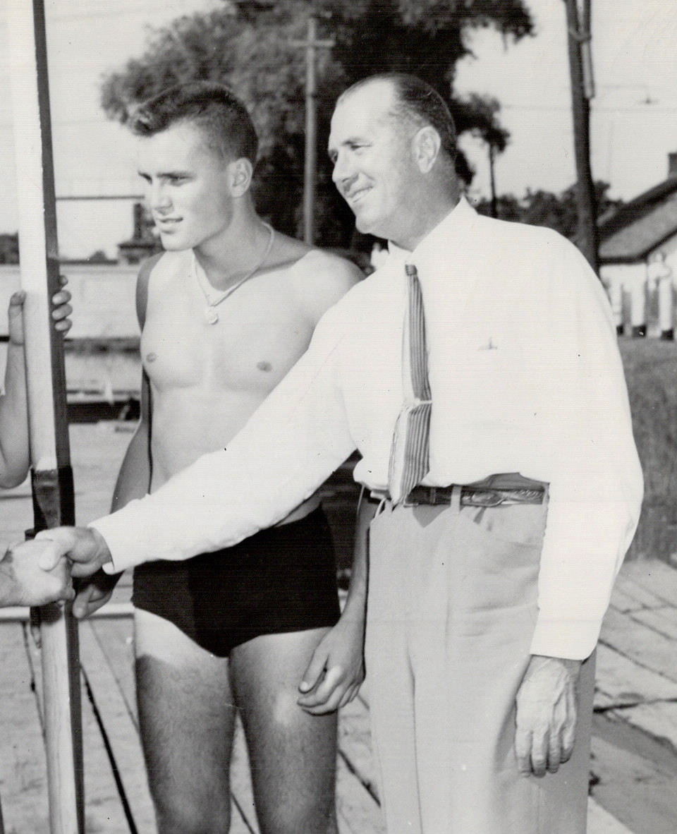 J Kelly Jr F Phil and his father